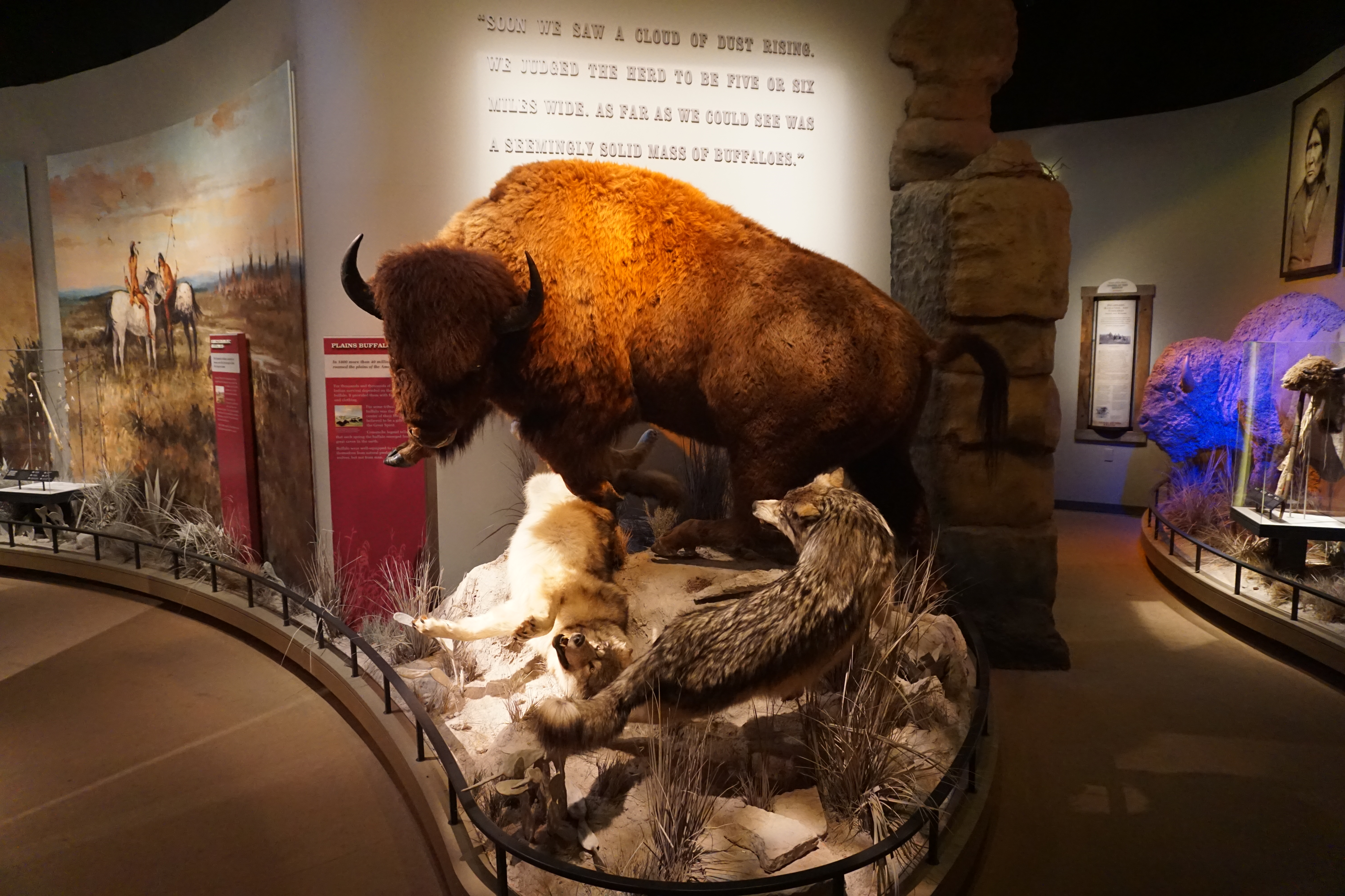 The A Wild Land exhibit at Frontier Texas! in Abilene, Texas (United States).